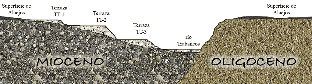 Cross section, depicting the fault that affects the middle and final courses of the Trabancos River as well as the sequence of its river terraces